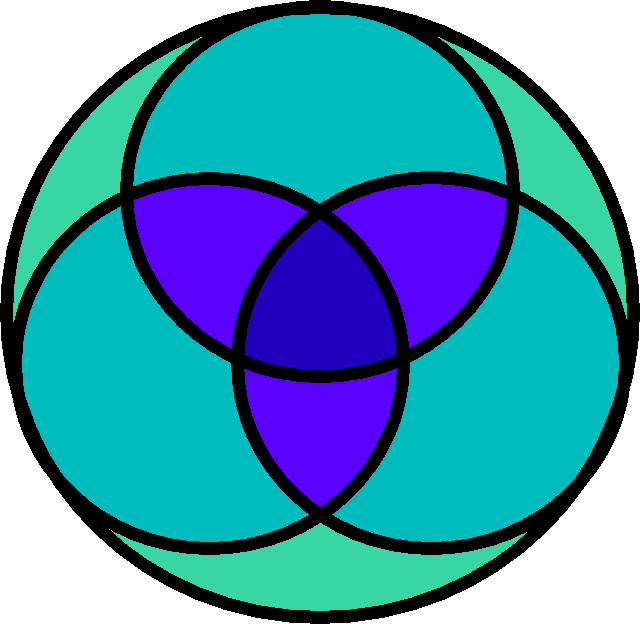 a Venn diagram-like symbol for the Christian Trinity (God the Father, God the Son, and the Holy Spirit)